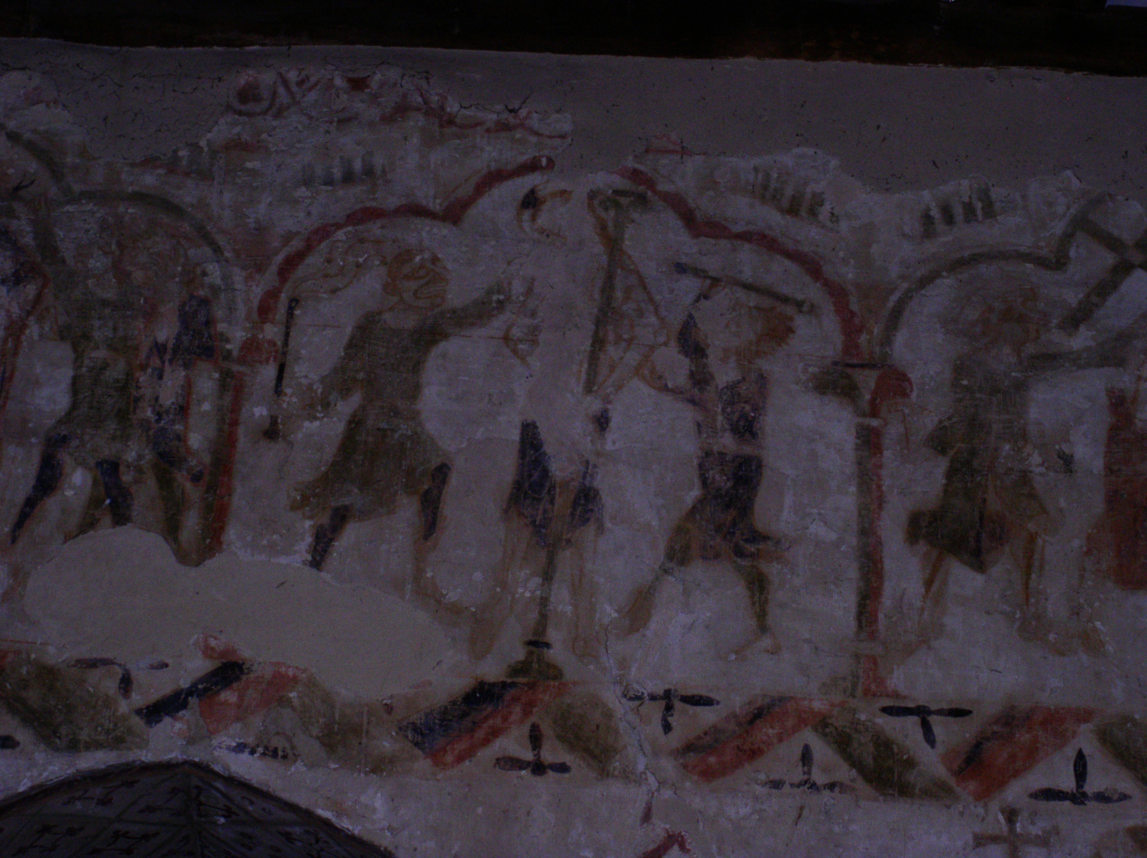 Wall painting of the Flagellation of Christ in St Mary's Church, West Chiltington, West Sussex, England